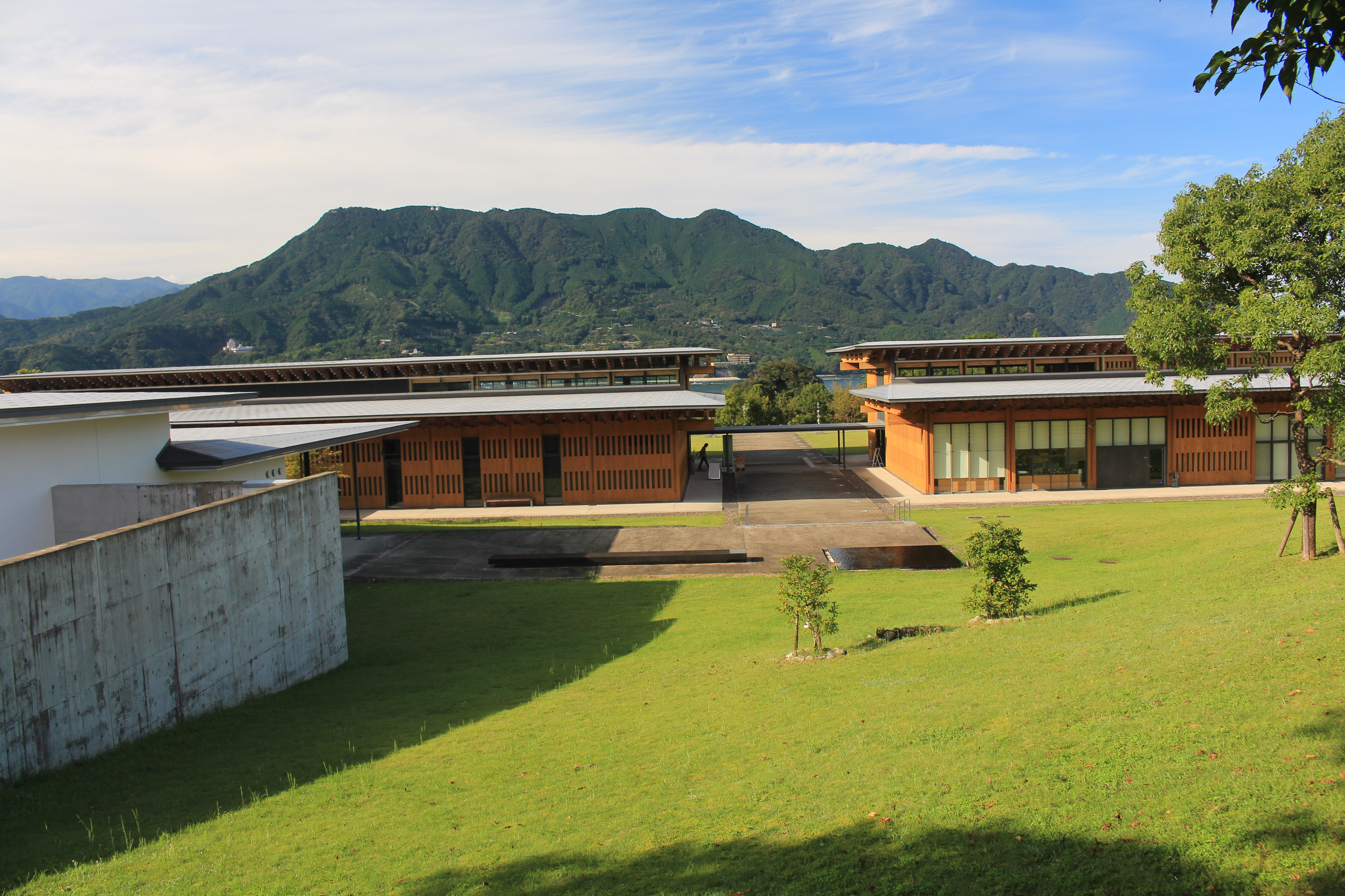 Kumano Kodō Center and Mount Tengura in Owase, Mie Prefecture, Japan.